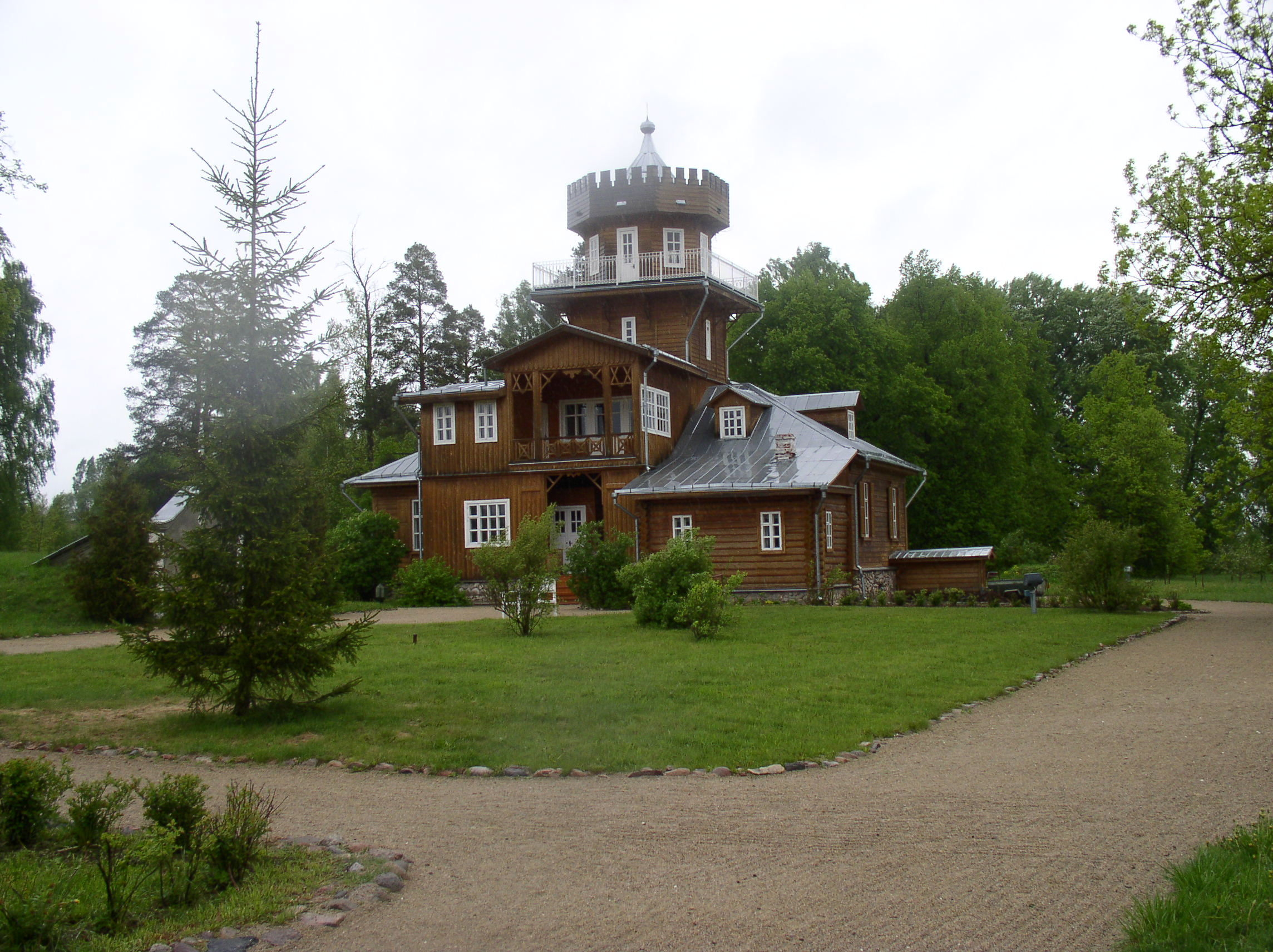 Manor of Ilya Repin. Zdrawneva, Belarus.